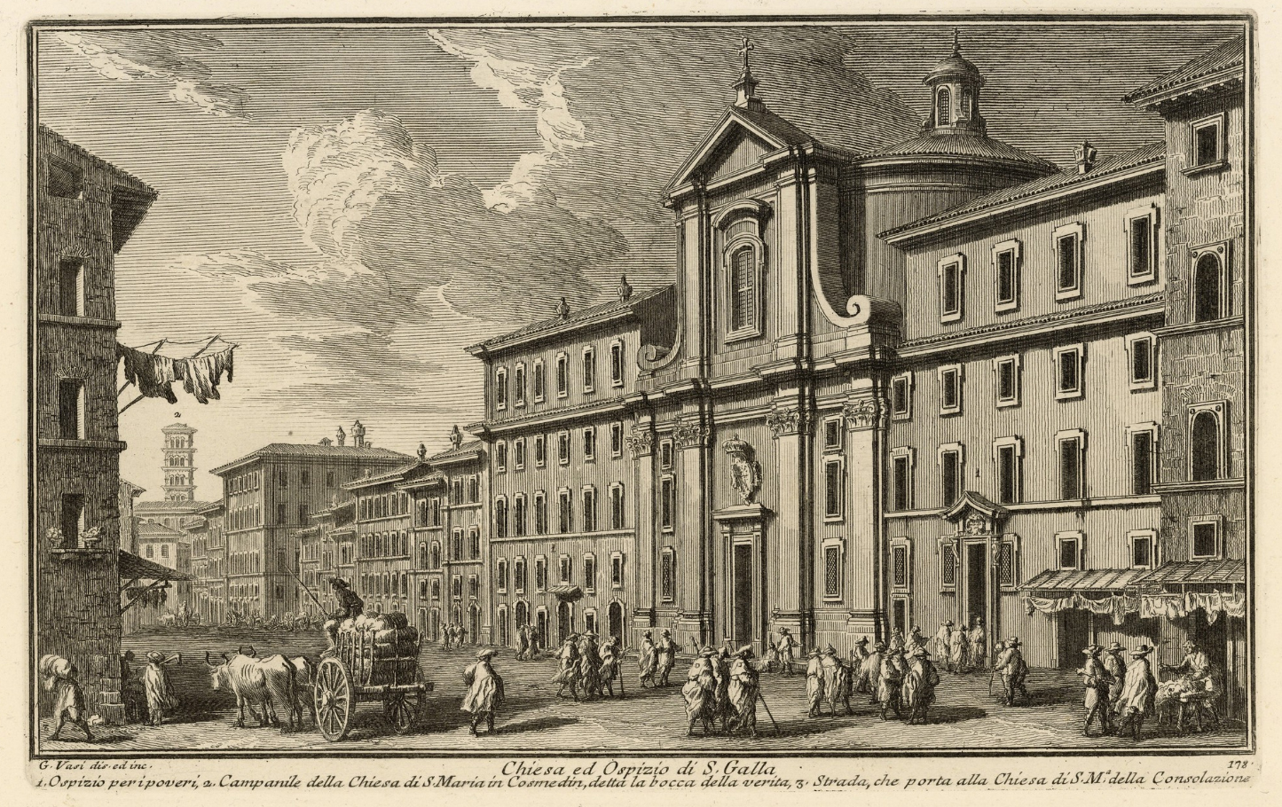 1) Ospizio di S. Galla; 2) Bell tower of S. Maria in Cosmedin; 3) Street leading to S. Maria della Consolazione.